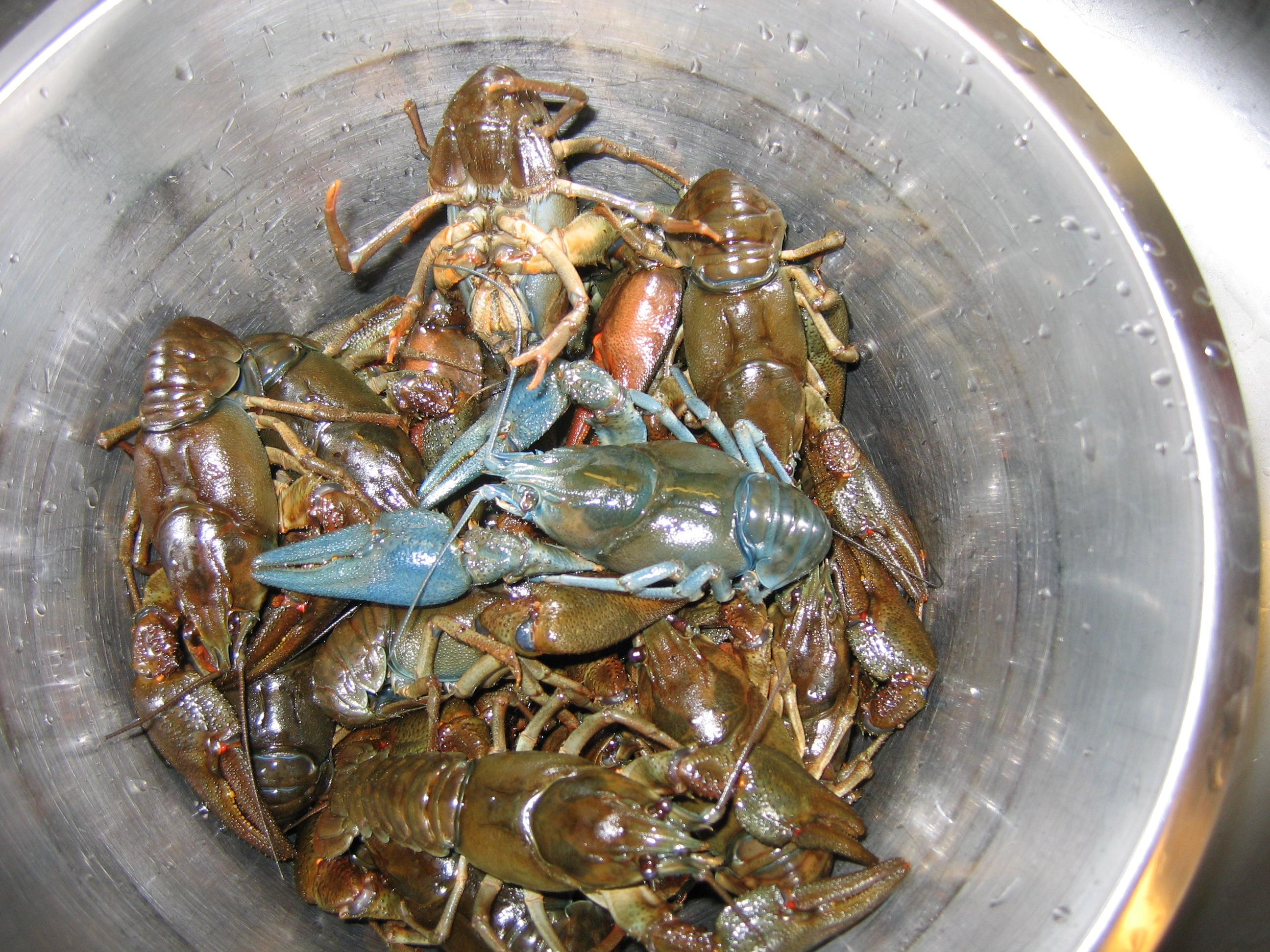 European crayfish (Astacus astacus) in a steel bowl. Photo taken with flash, in Helsinki, Finland, EU.